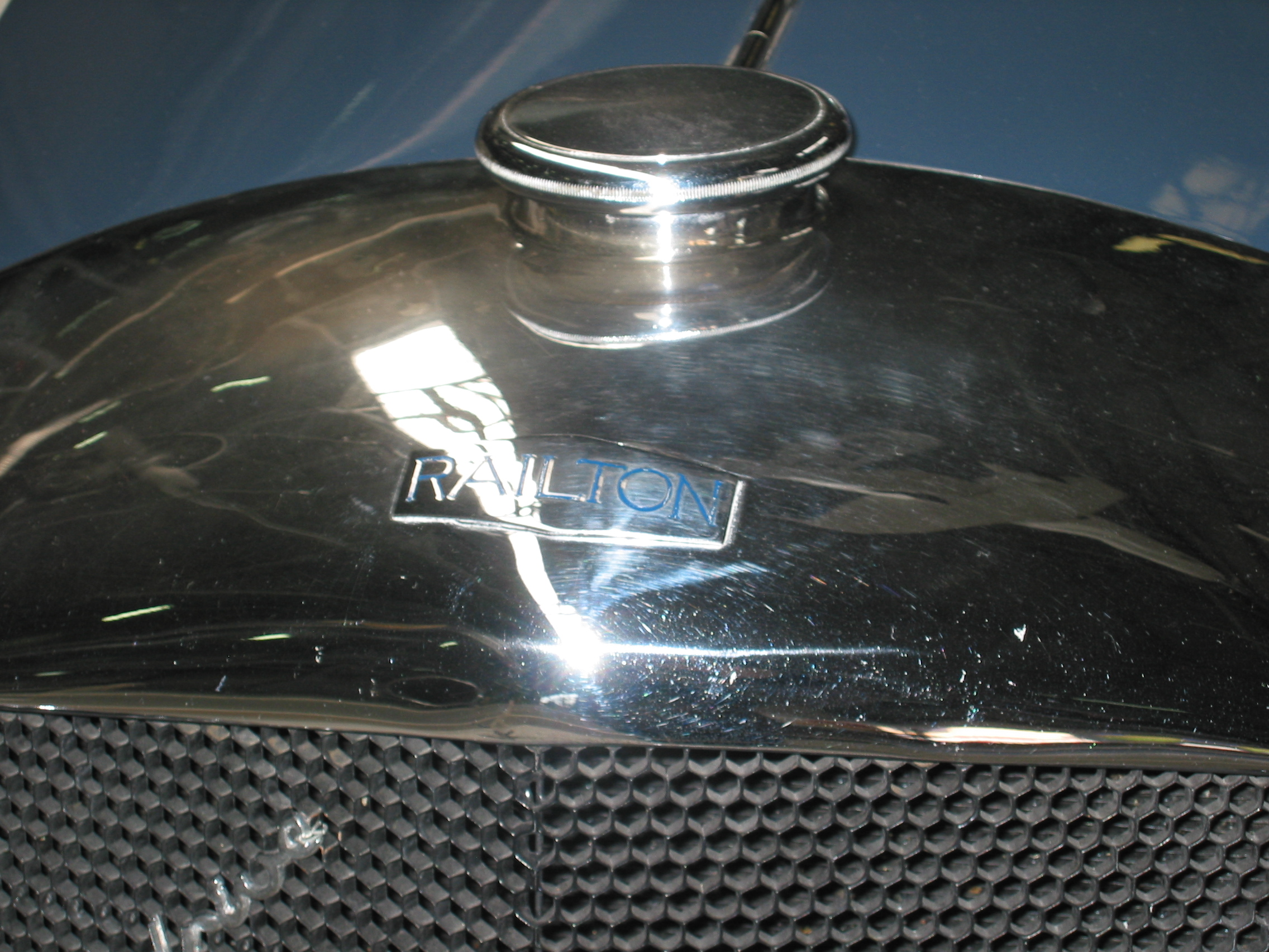 Emblem Railton